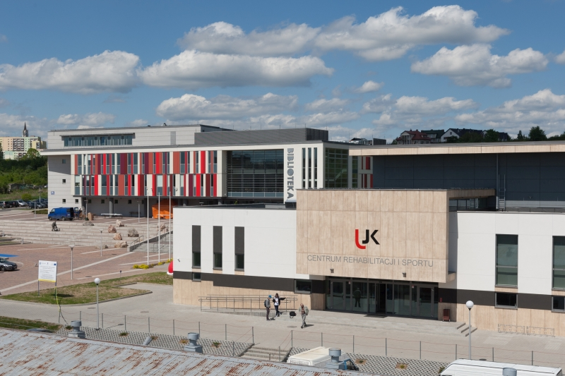 Fot. P. Małecki